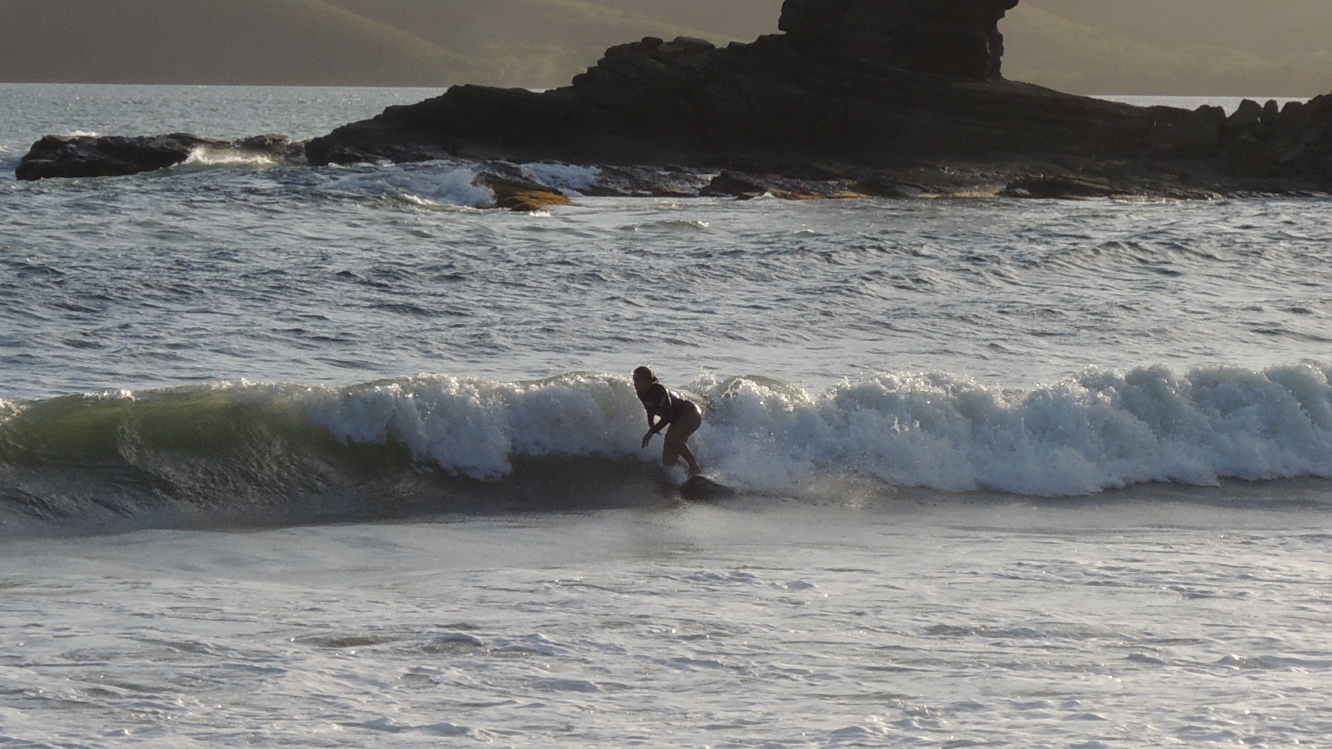 Vague Jenna Cinedrawa